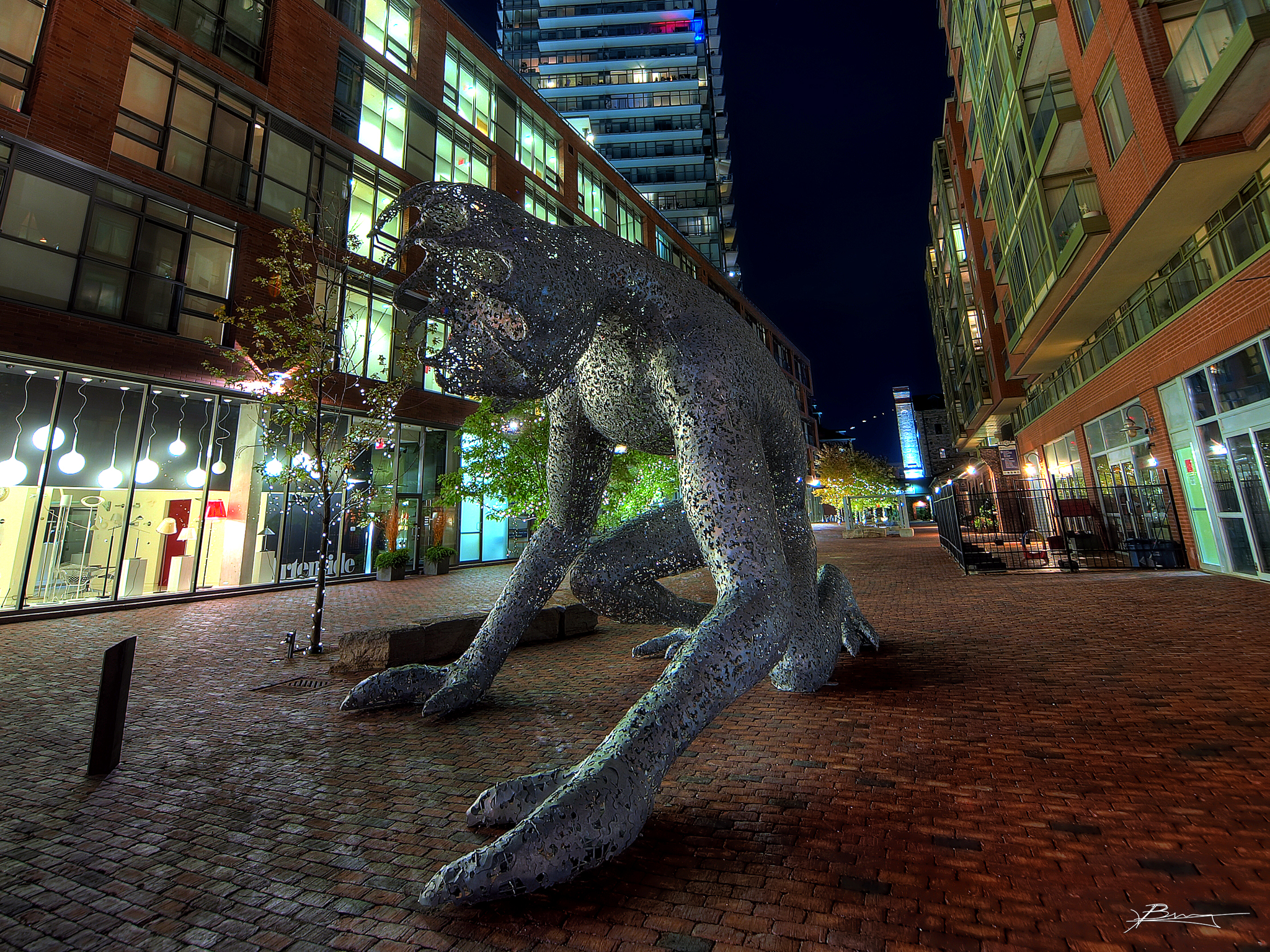 from this angle the statue reminded me of the creatures in the movie